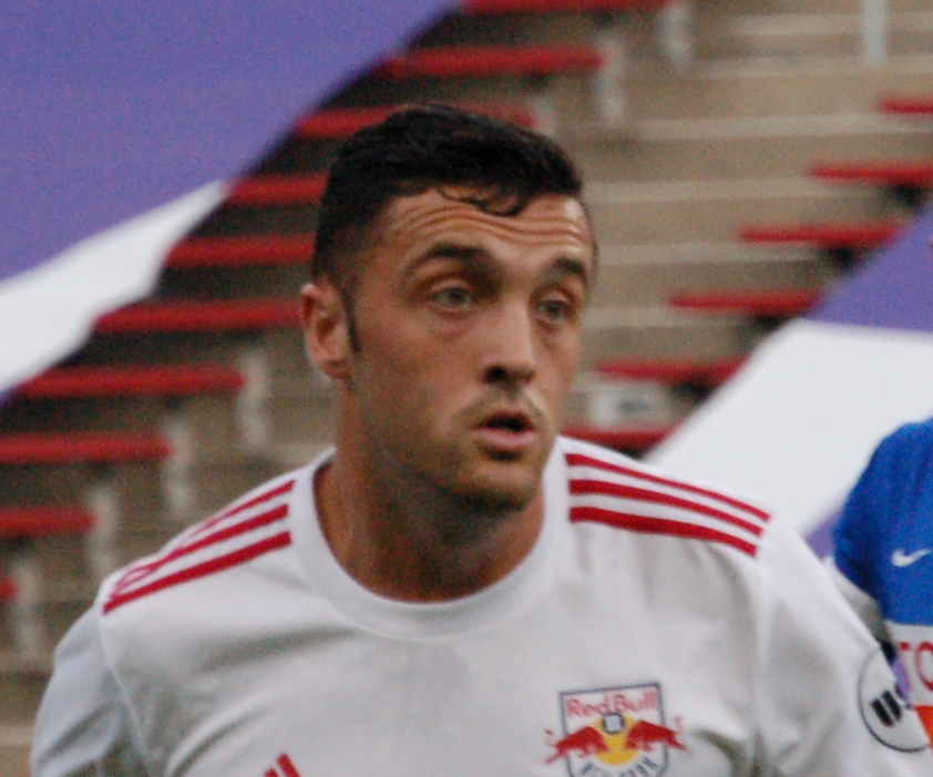 DSC_0060 Taken during a match between FC Cincinnati and New York Red Bulls II at Nippert Stadium in Cincinnati, USA on July 20, 2016.